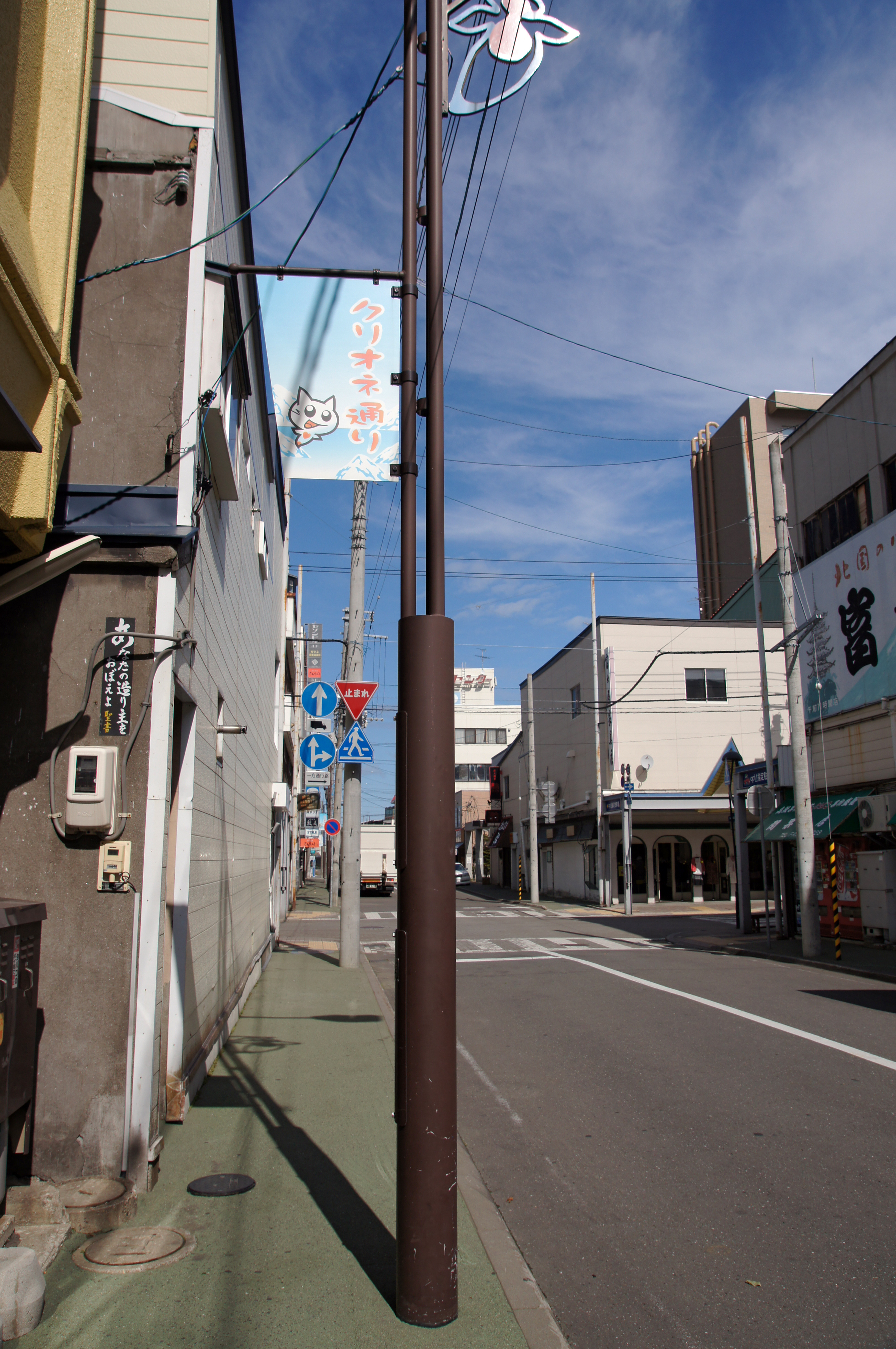 Clione-dori (Clione street) in Abashiri, Hokkaido prefecture, Japan